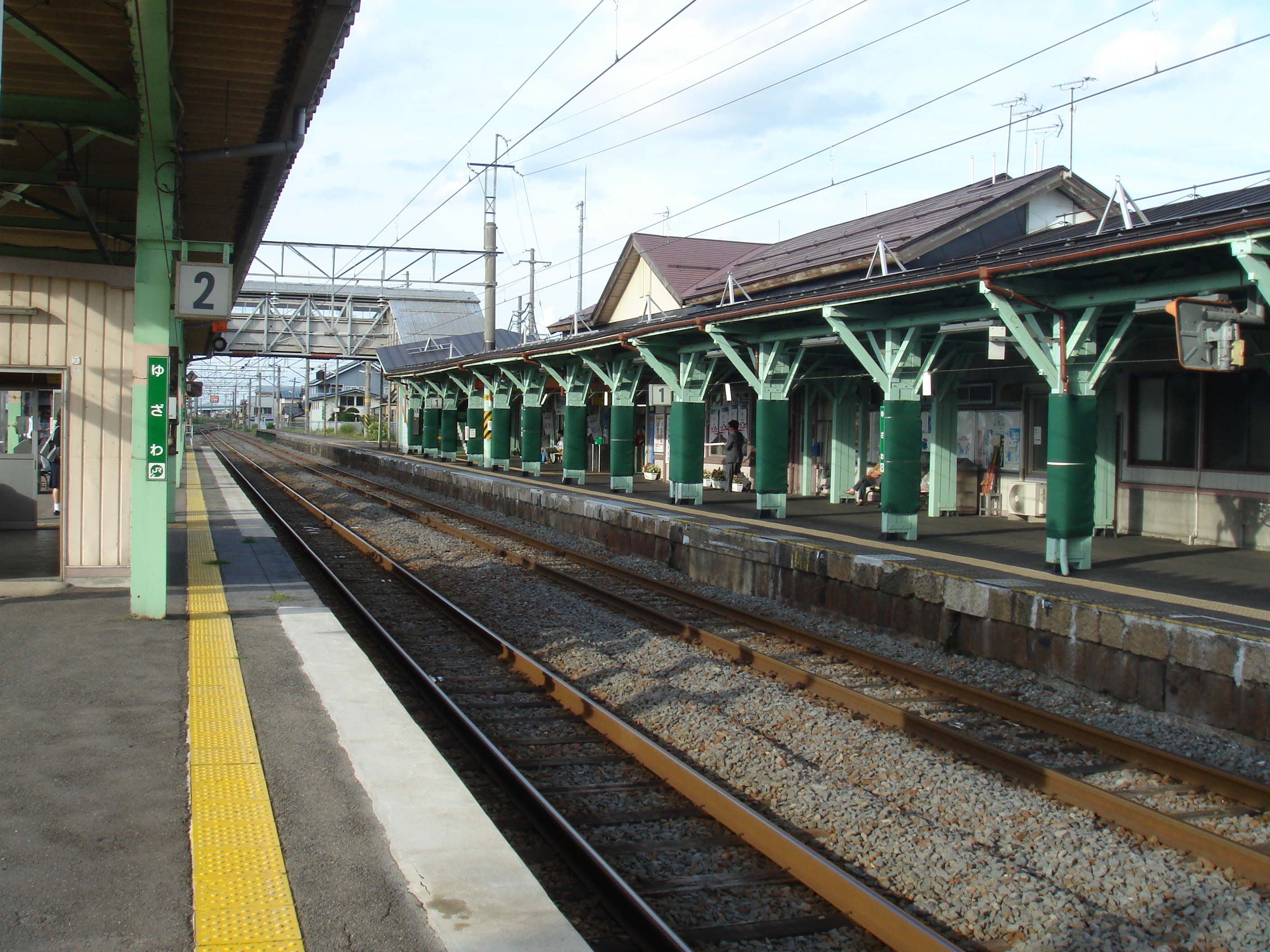 JR East Yuzawa Station platform